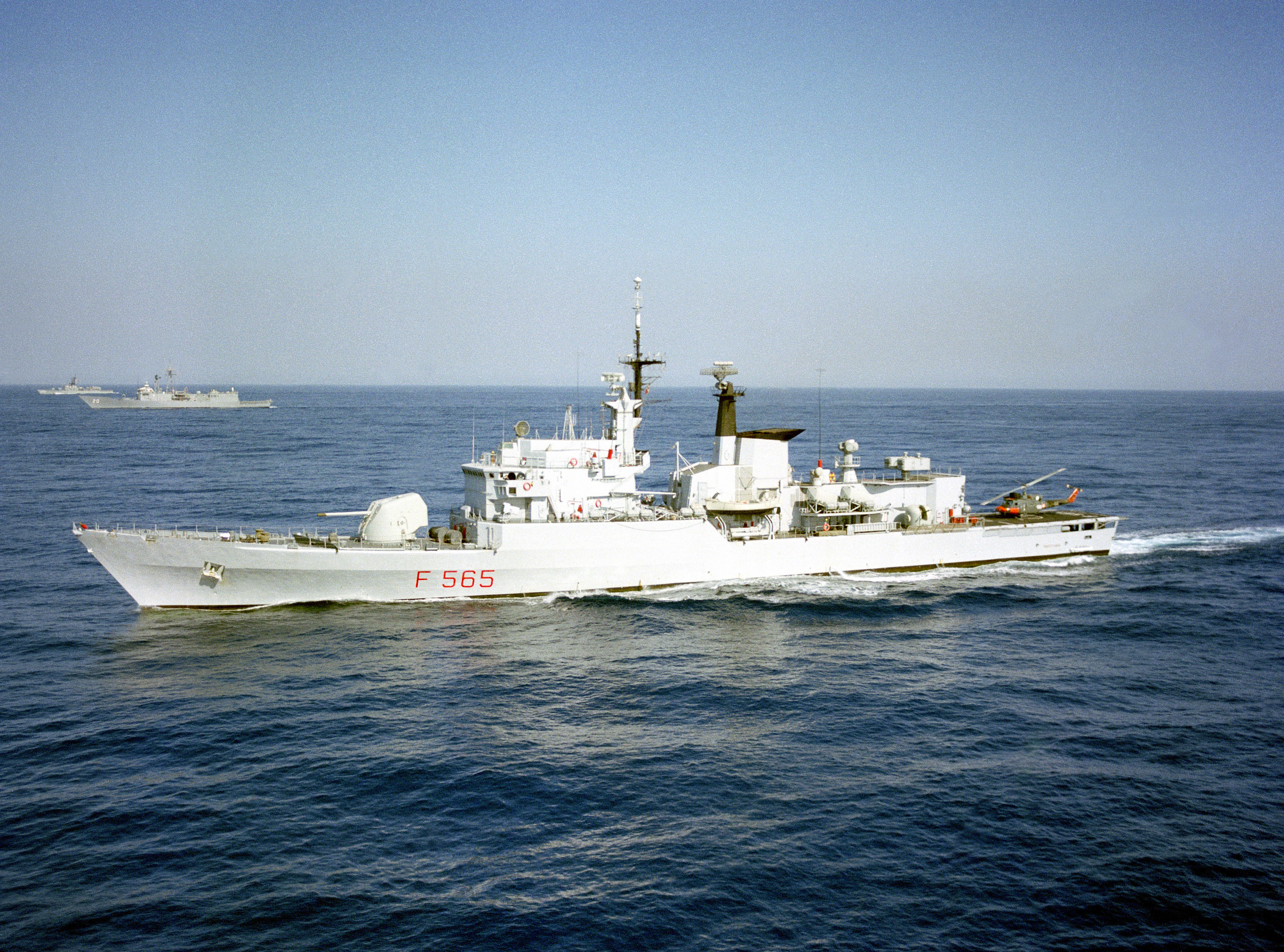 A port view of the Italian Lupo class frigate SAGITTARIO (F-565) underway during exercise Distant Drum.